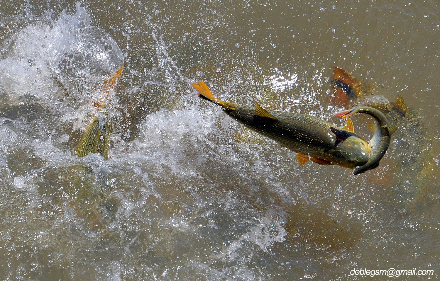 Salminus brasiliensis (synonym S. maxillos) hunting the same species